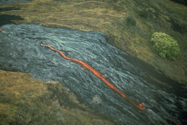 Lava flow from Mauna Ulu emerging from a lava tube at Poliokeawe Pali, Kilauea, Hawaii, United States